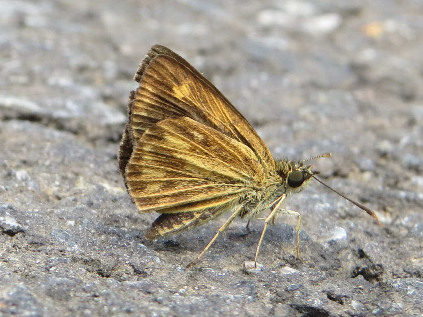 Photos from Maloor, Peravoor, Kerala